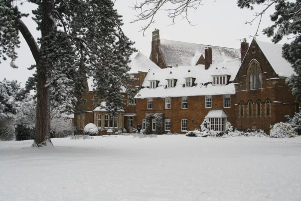 Bloxham School in the snow, 2010